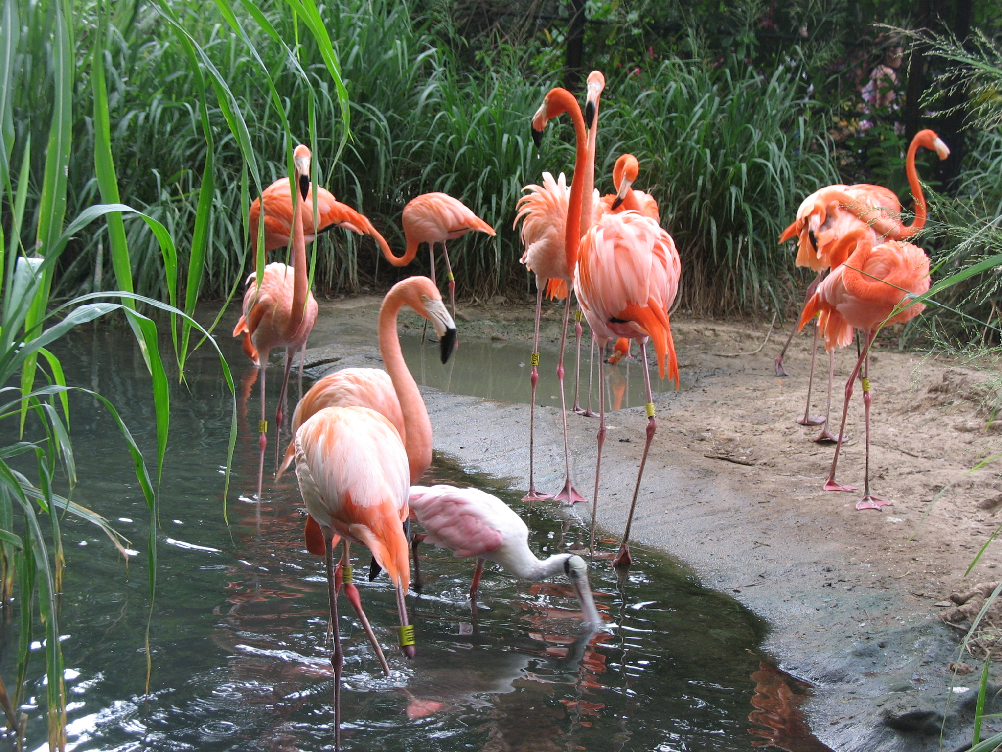 Barranquilla Zoo: Caribbean Flamingoes and Roseate Spoonbill